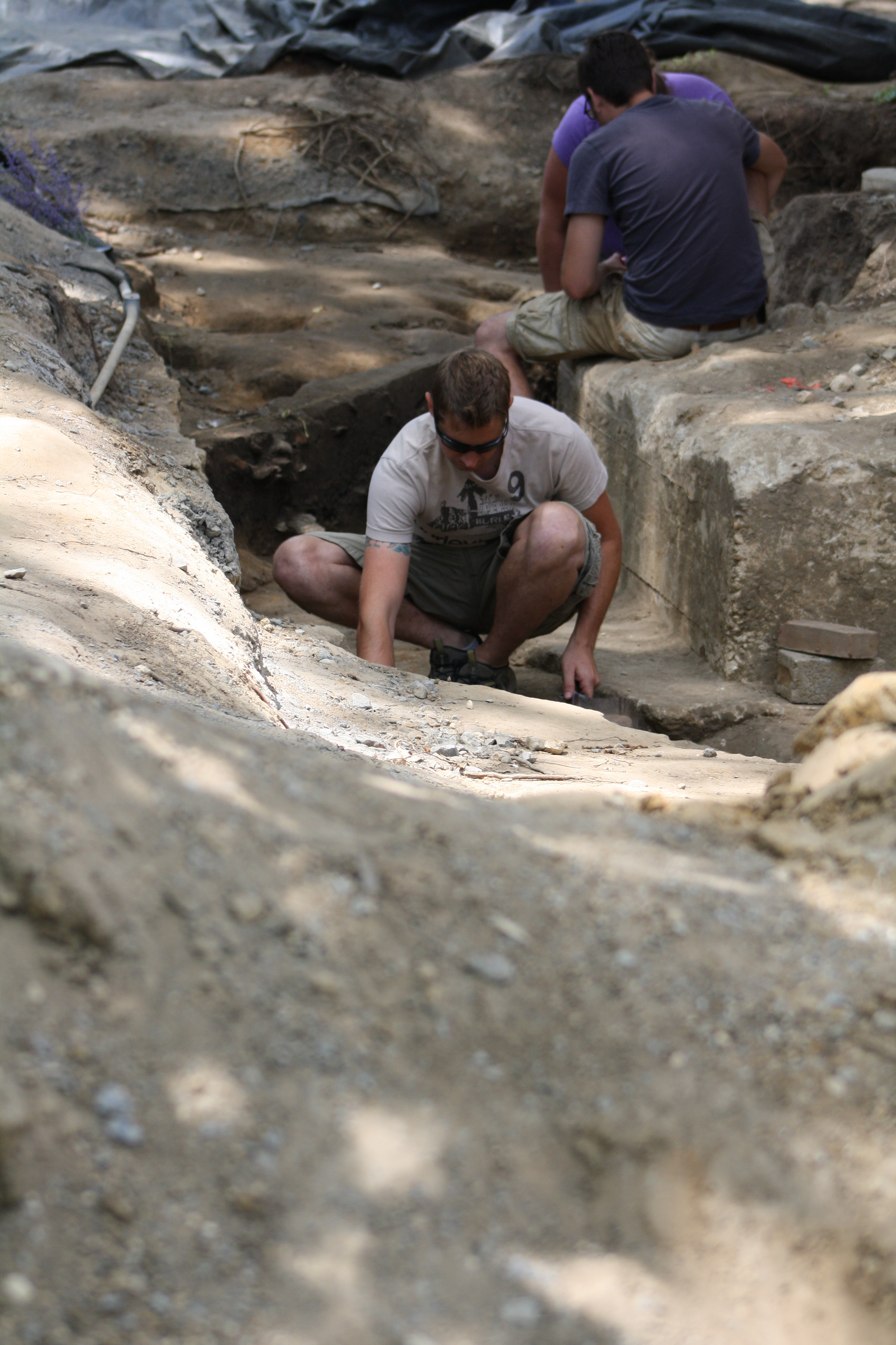 Archeology student working on an archeological excavation on the campus of St. Mary's College of Maryland. The school sits on the site of the first Maryland colony, in St. Mary's City, Maryland. The college has an internationally recognized archeology program, the "Historical Archeology Field School", which it operates jointly with the Historic St. Mary's City Commission. Photo by Elvert Barnes, 2011.